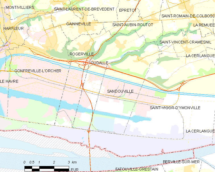 Map of French municipality Oudalle